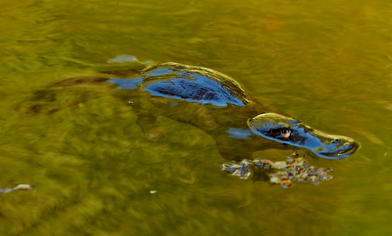 Gold Creek - platypus